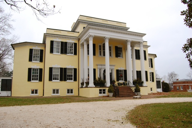 Oatlands Plantation, an historical site in Leesburg, Virginia.